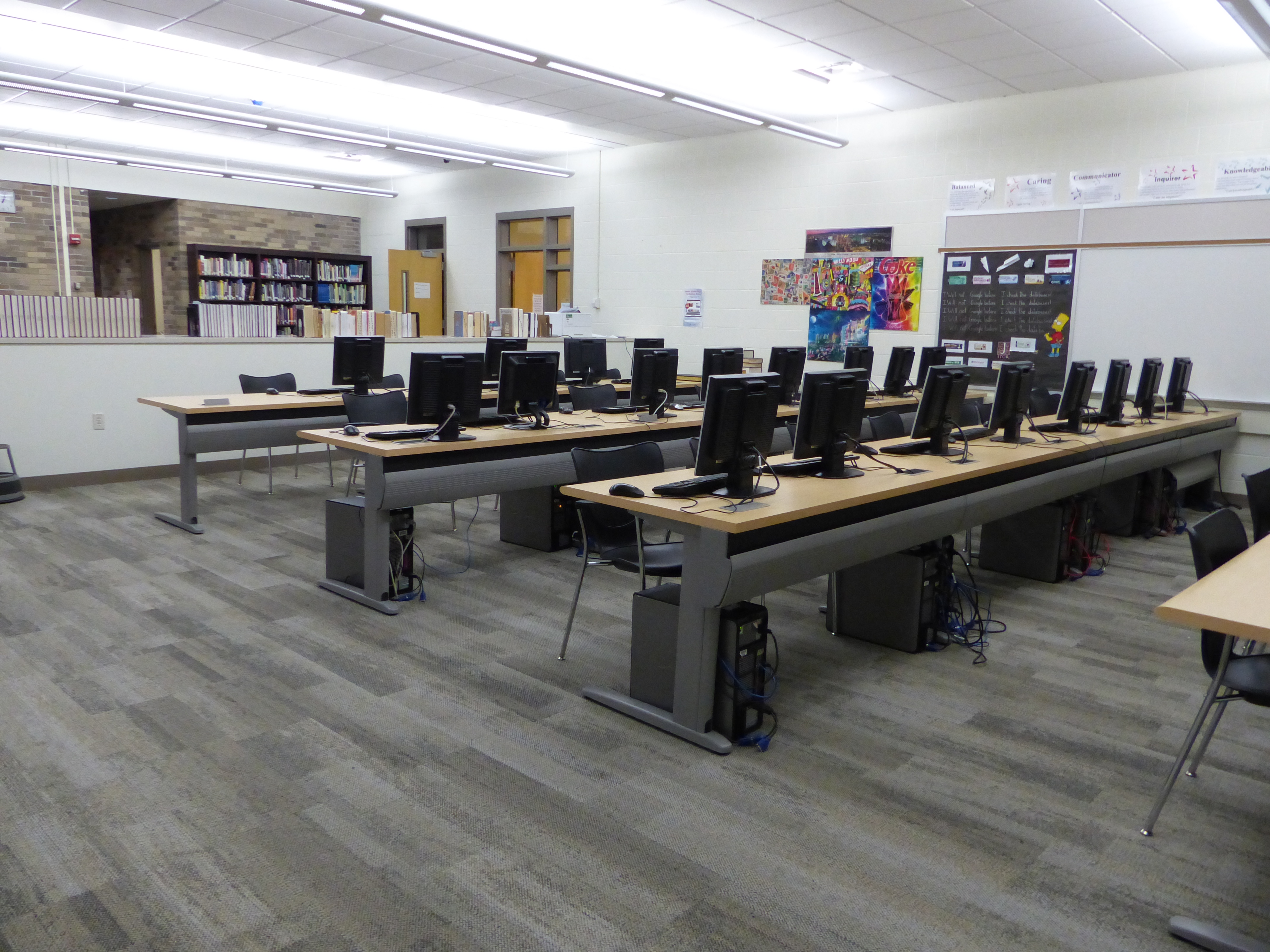 computer area